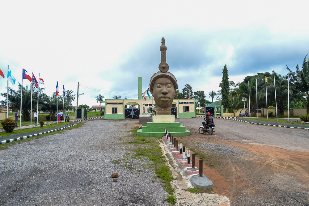 Oduduwa King of Yoruba